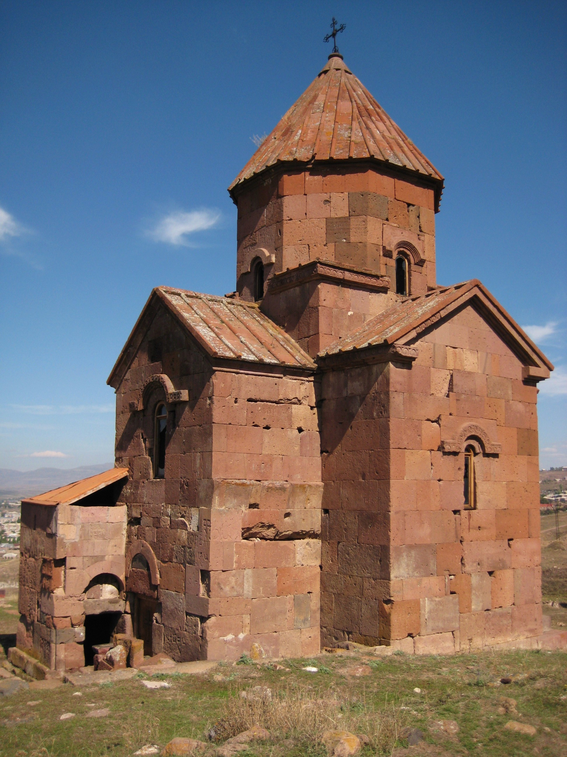 Lmbatavank